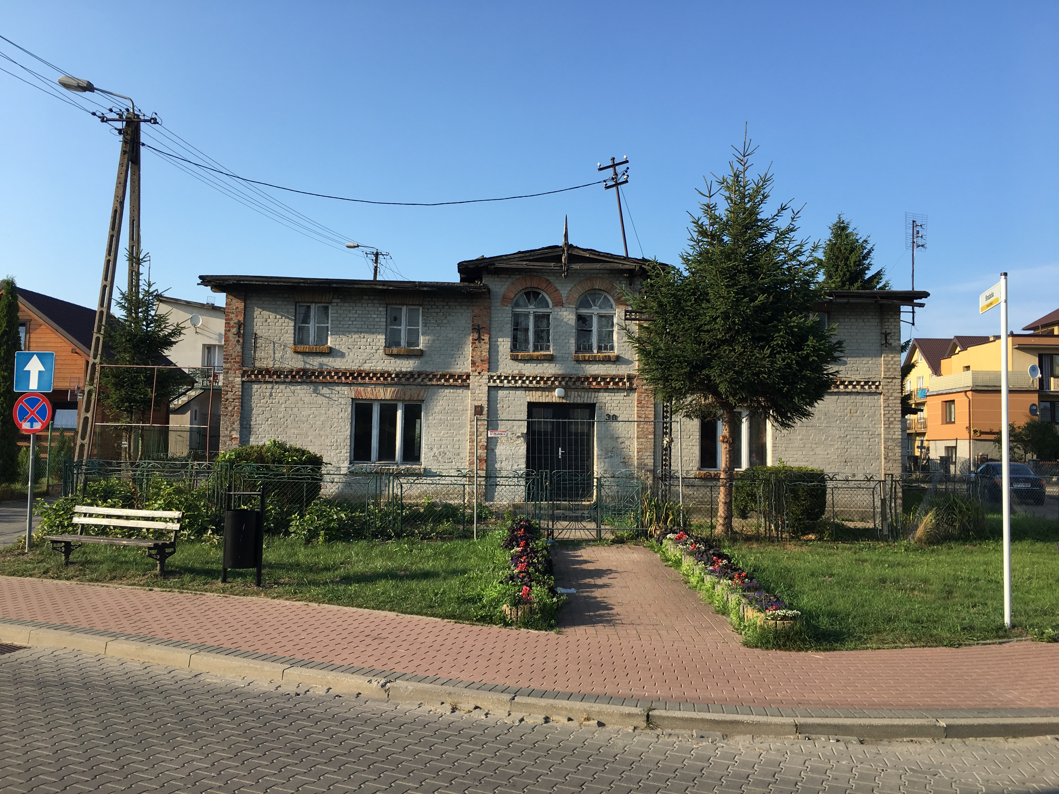 A typical residential house in Chłapowo